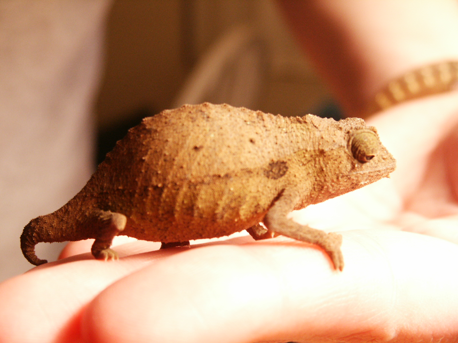 Species: Rhampholeon brevicaudatus From Wiki:en, originally created and uploaded by [user:Fender 01] Original tag: {PD-self}